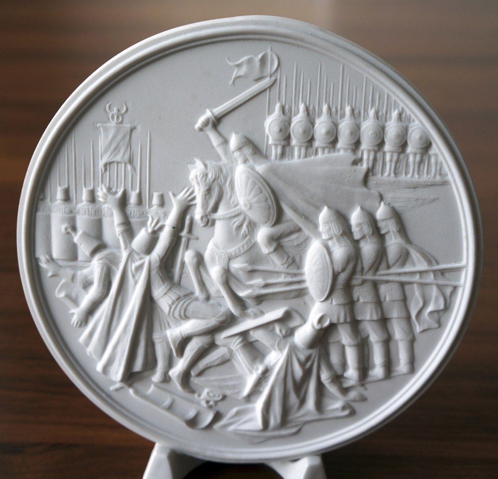 «1242—Battle of the Ice». Plaque from the series «The Salute of Russia's Victory». Porcelain. Conceived of the five plaques. Not finished. Author Bystrushkin B.D.